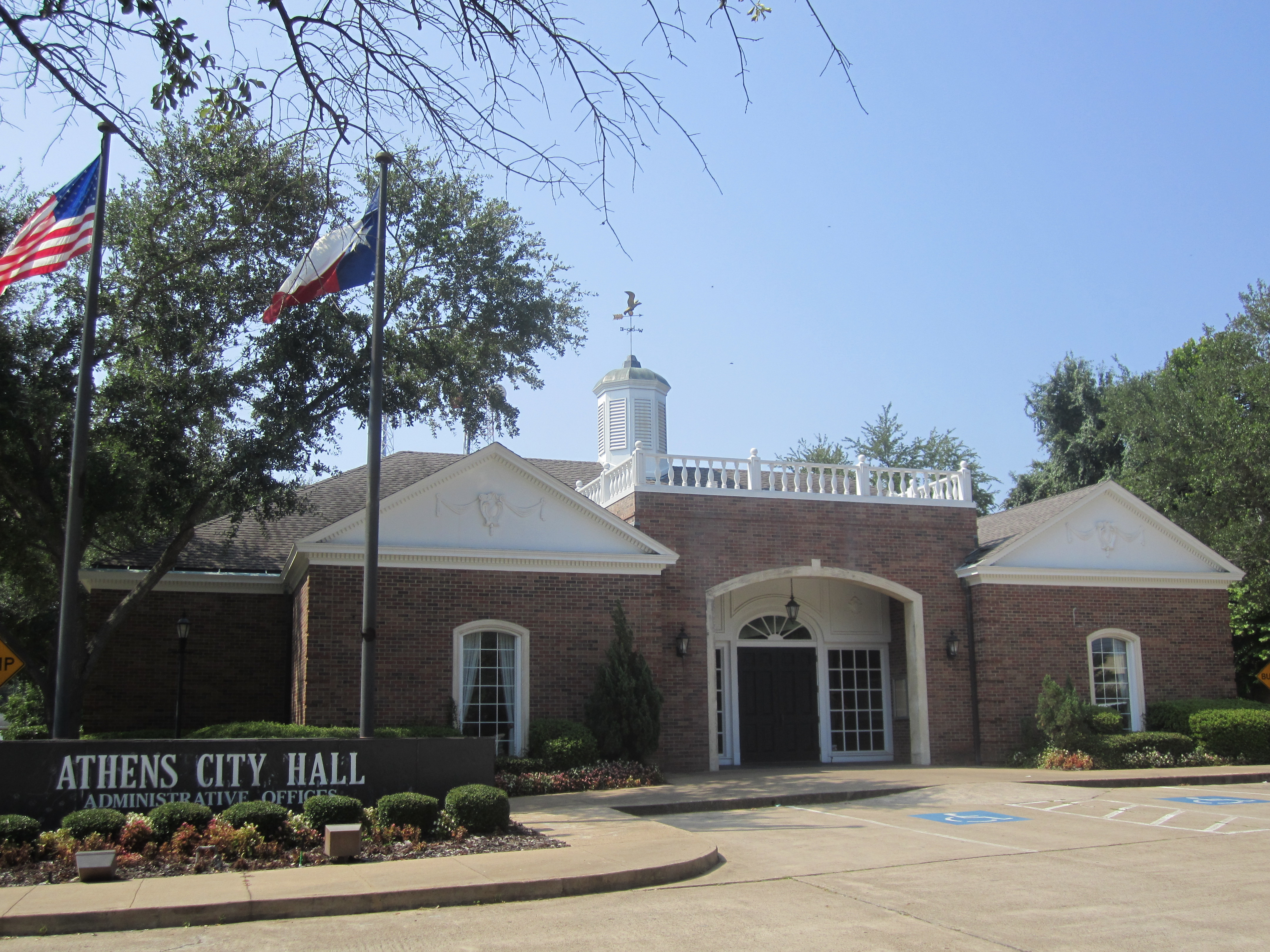 I took photo with Canon camera in Athens, TX.